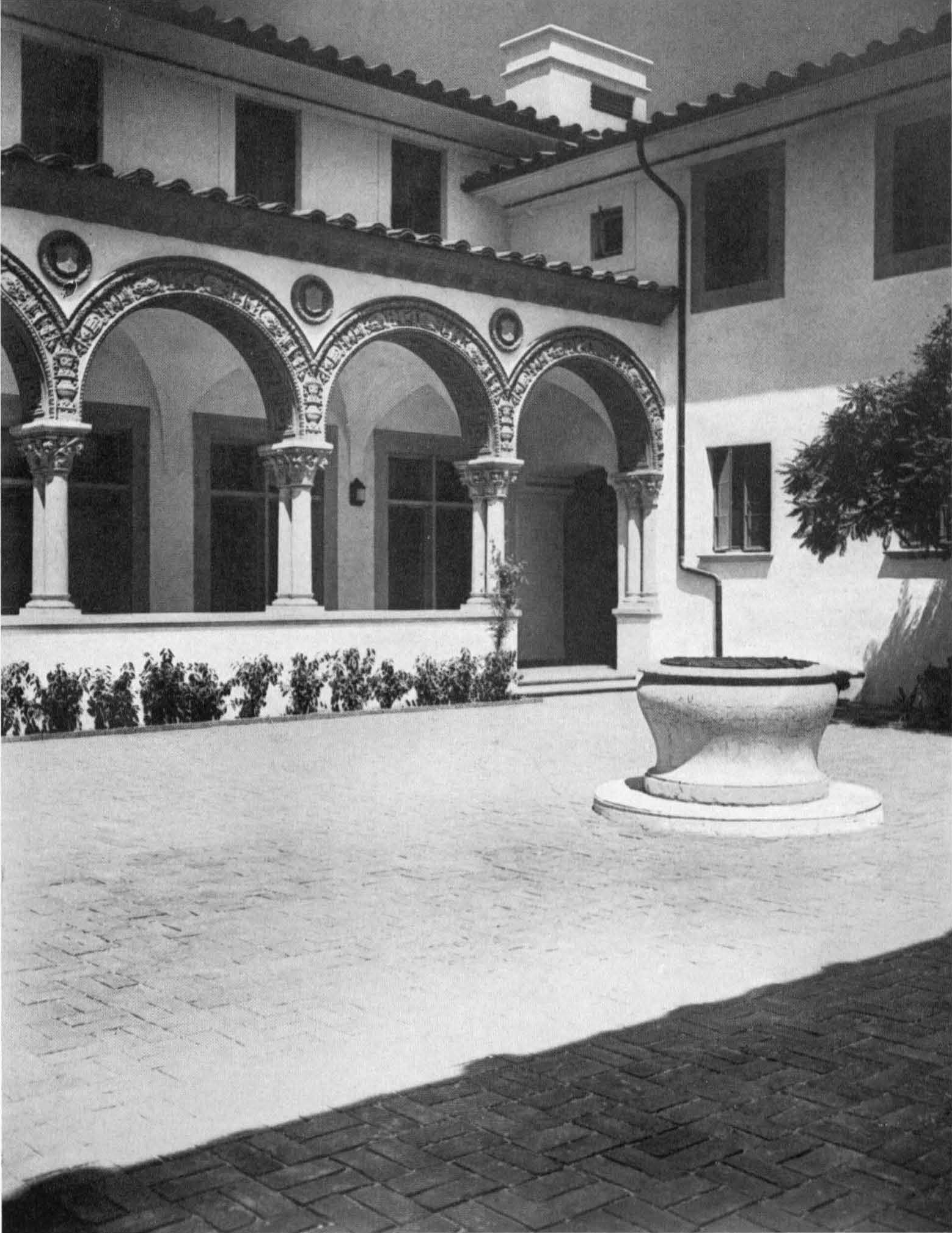 Ricketts House at the California Institute of Technology